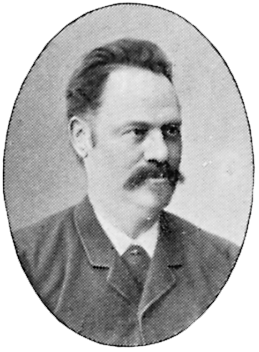 Image scanned from the book "Svenskt Porträttgalleri XX - Arkitekter, Bildhuggare, Målare m.fl. " ("Swedish Portrait Gallery XX - Architects, Sculptors, Painters, ") published 1901